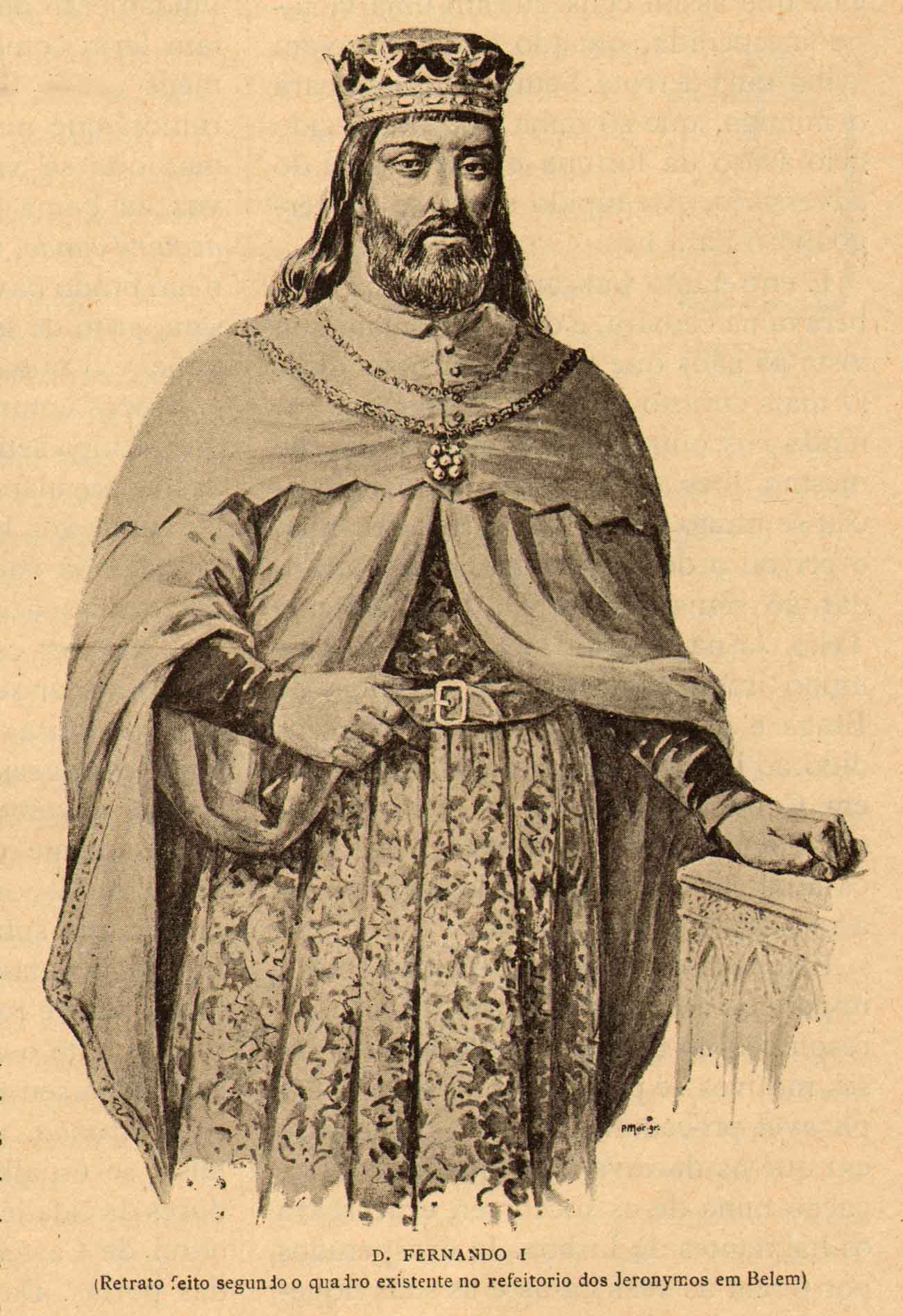 Illustration by Alfredo Roque Gameiro in the book História de Portugal, popular e ilustrada, by Manuel Pinheiro Chagas